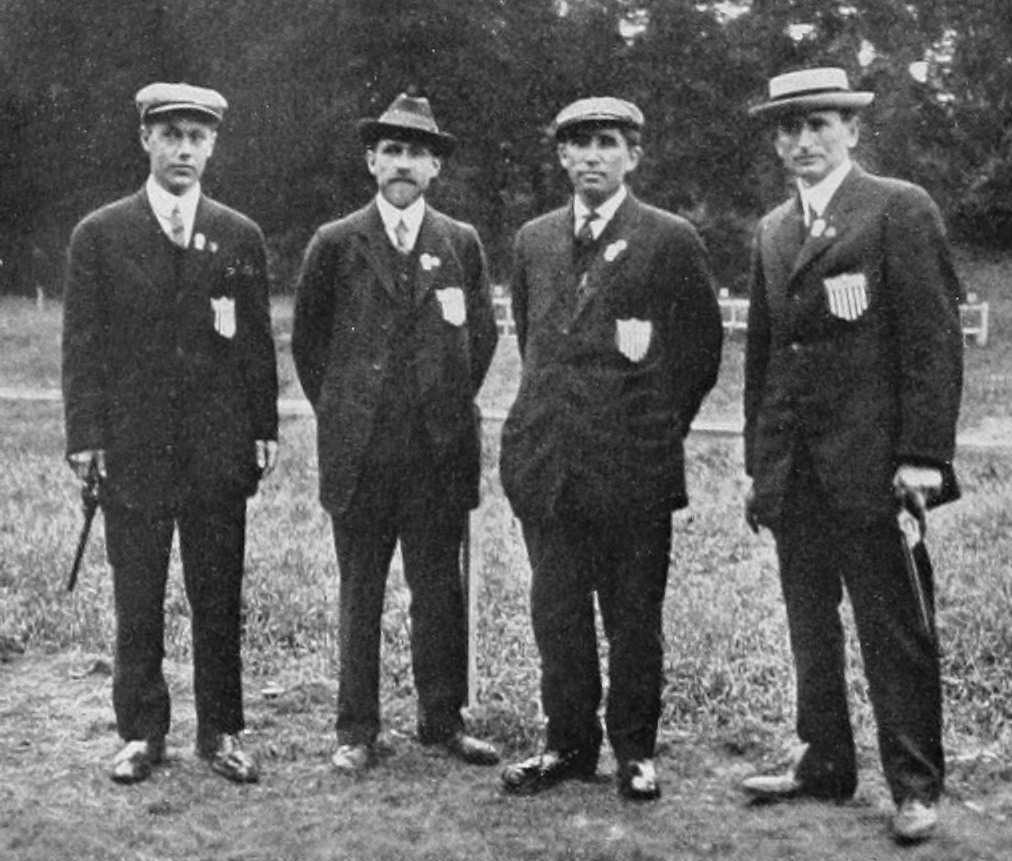 US 50 m pistol team at the 1912 Summer Olympics